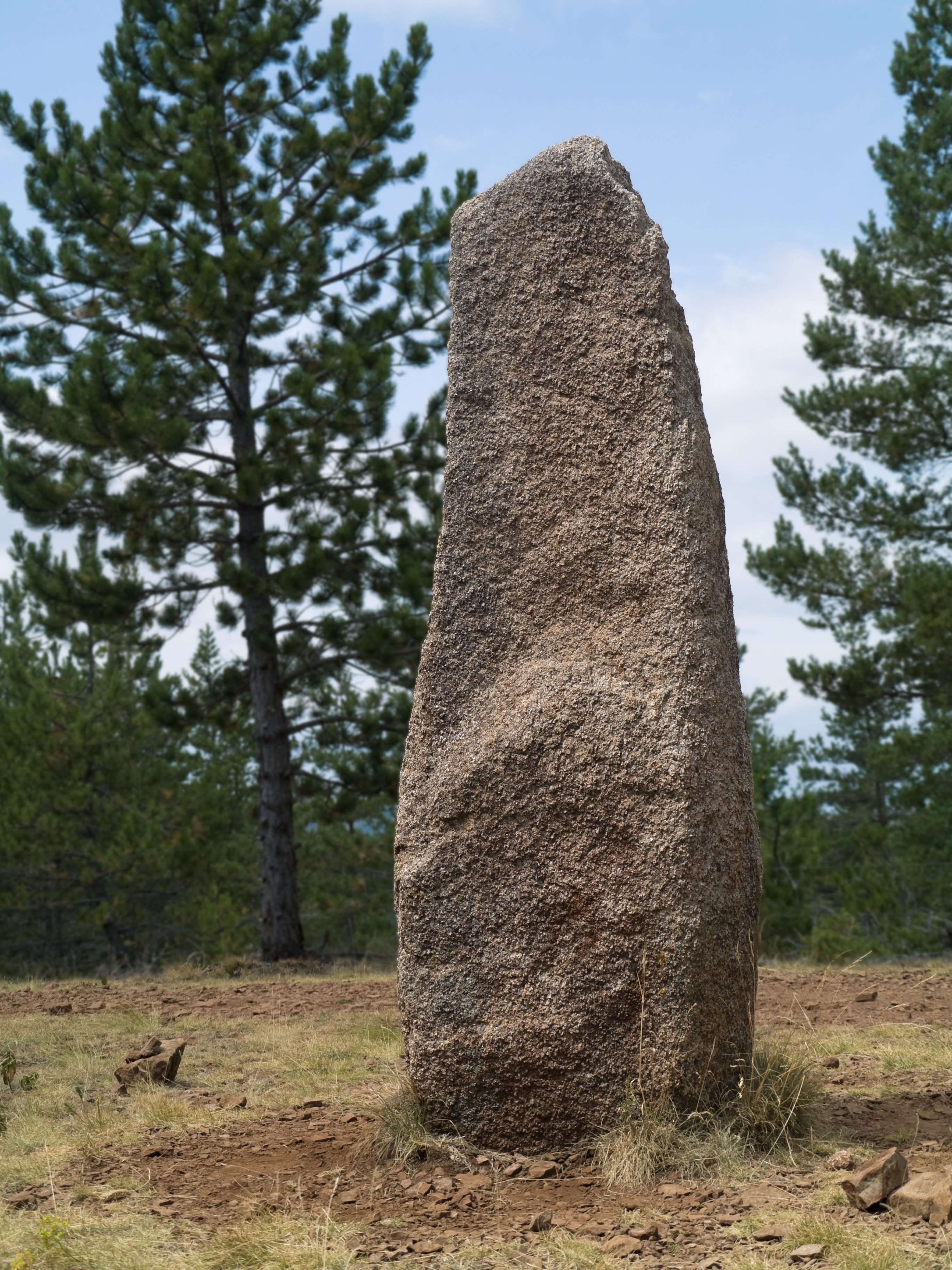 One of the standing stones in the ‘Cham des Bondons’ site, Lozère, France.